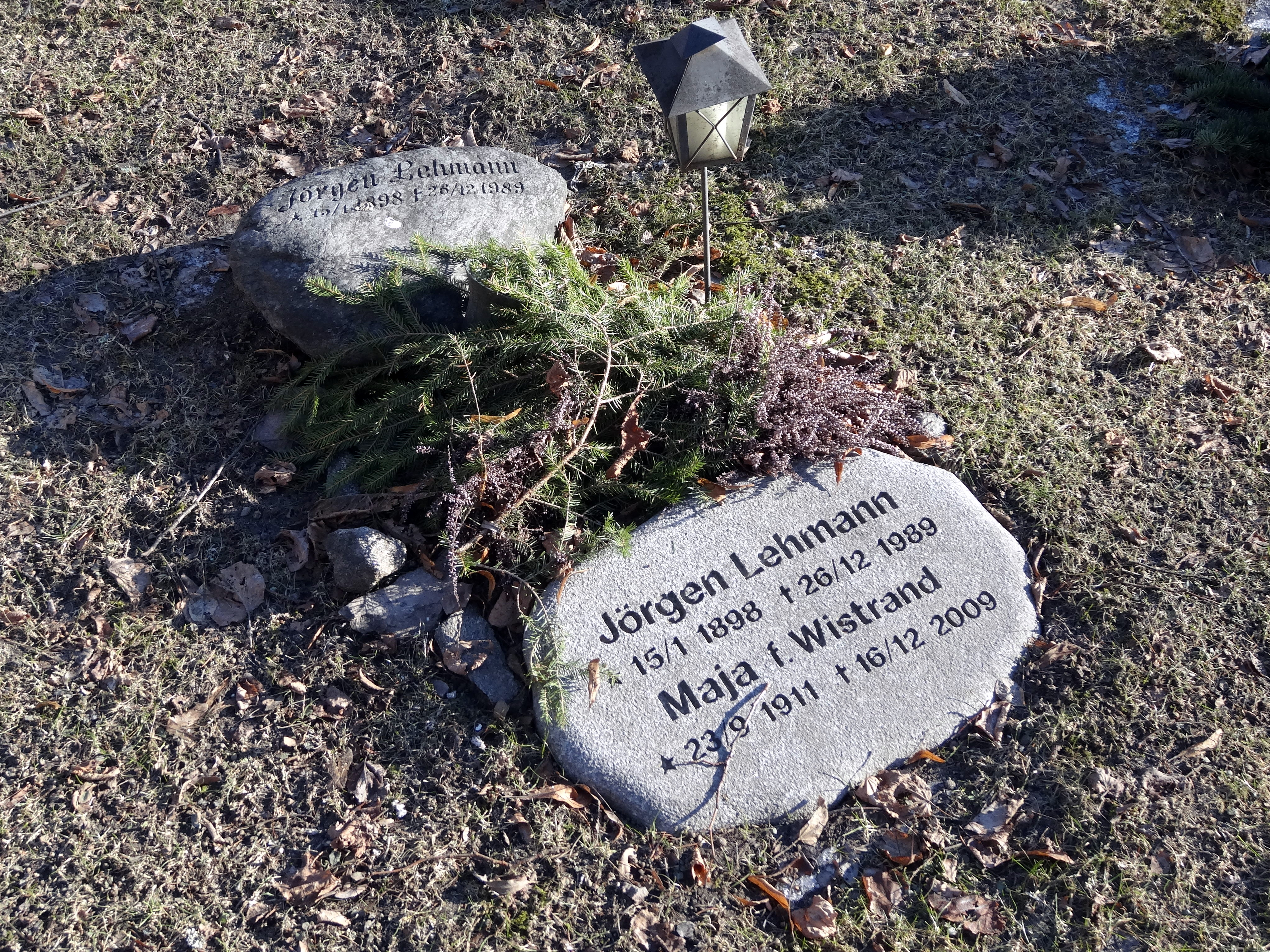 Gravestone of Jörgen Lehmann, Danish-born Swedish chemist and physician (1898-1989) at the Stampen cemetery in Gothenburg, Sweden.